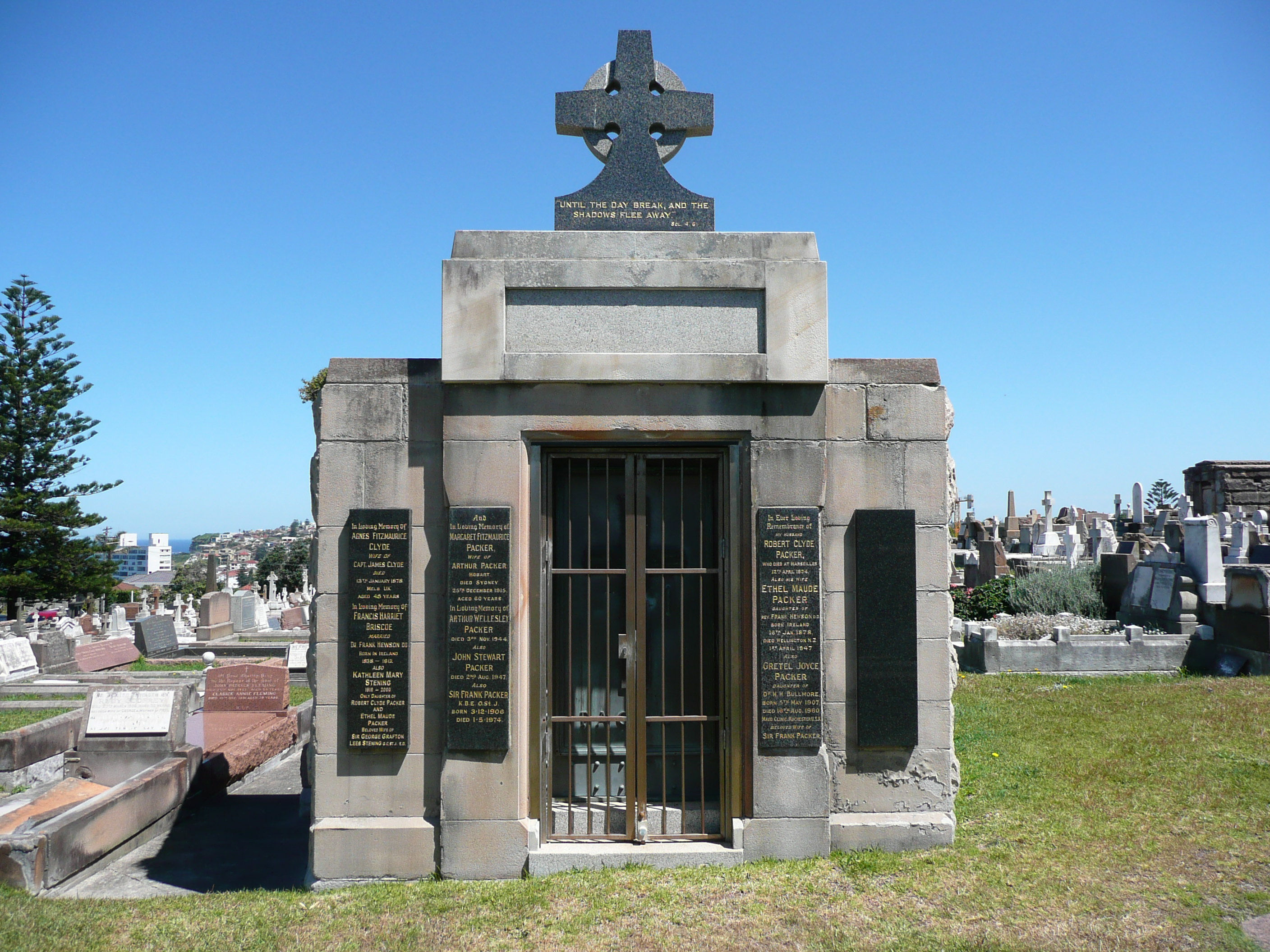 cemetery, sydney